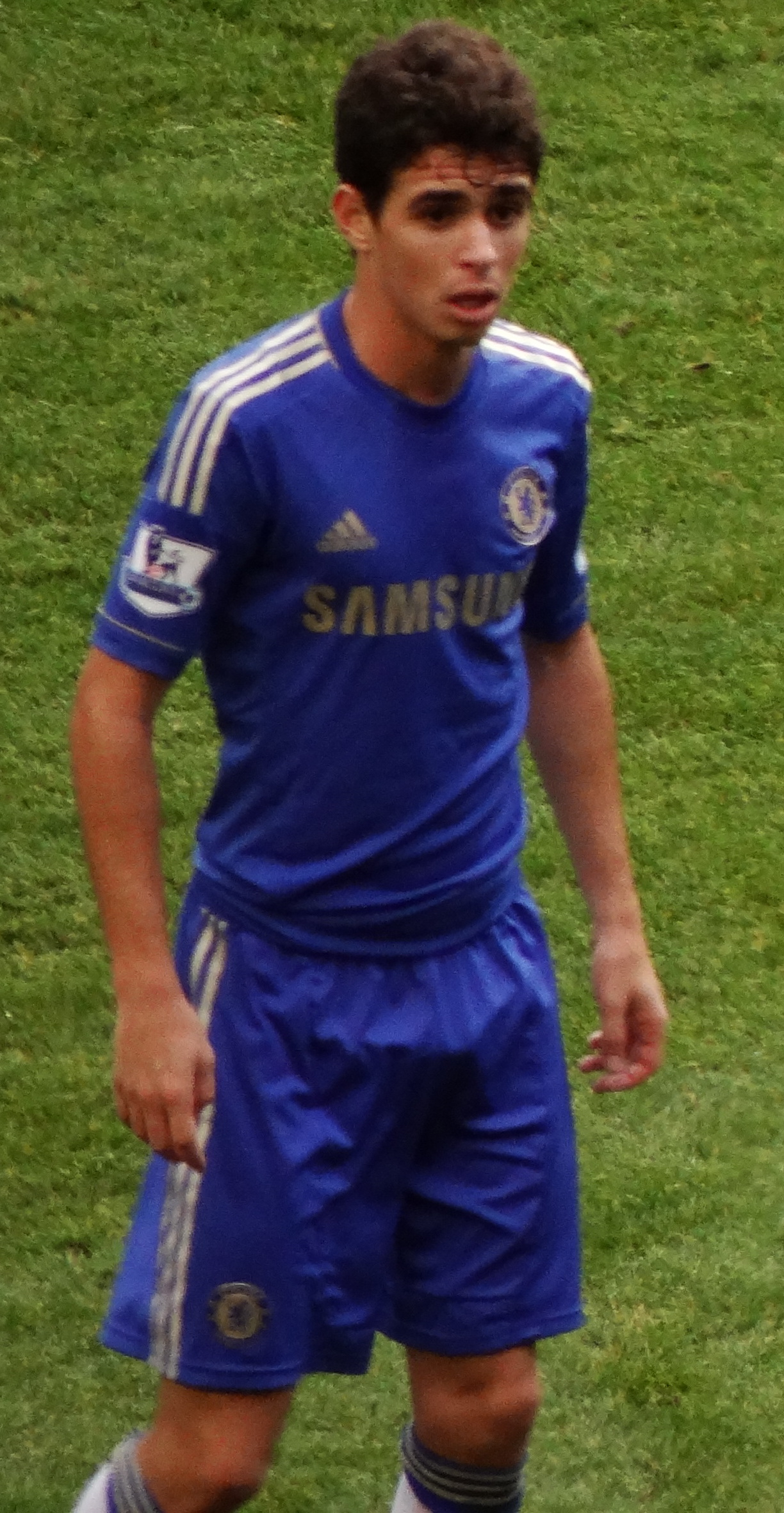 Oscar playing for Chelsea in 2012, against Norwich City.